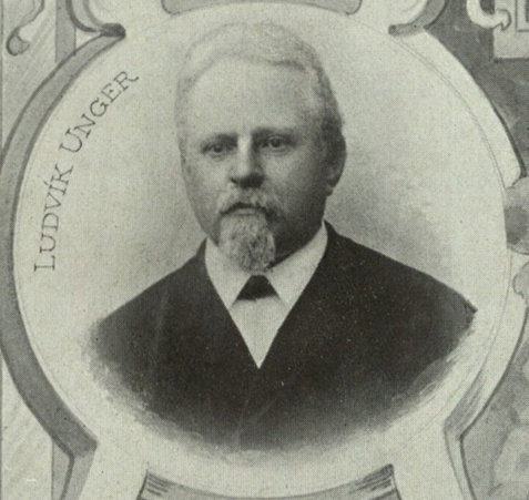 Portrait of Ludvík Unger (1840-1917), Czech teacher and writer